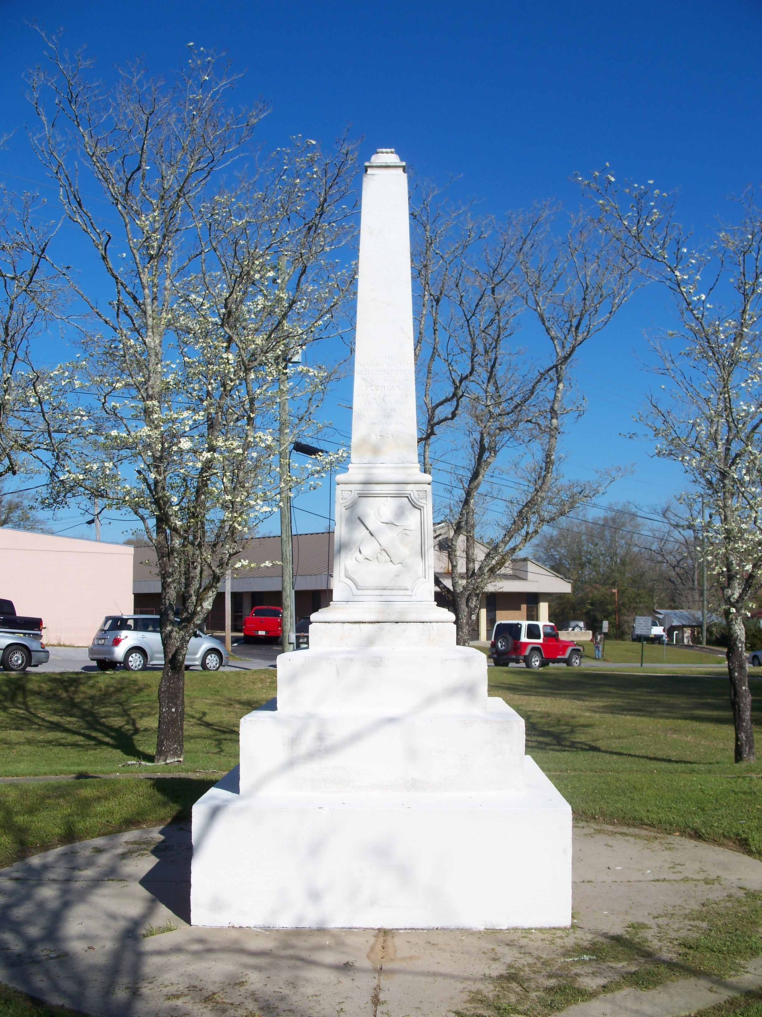 DeFuniak Springs, Florida: DeFuniak Springs Historic District: Confederate monument outside the Walton County Courthouse.